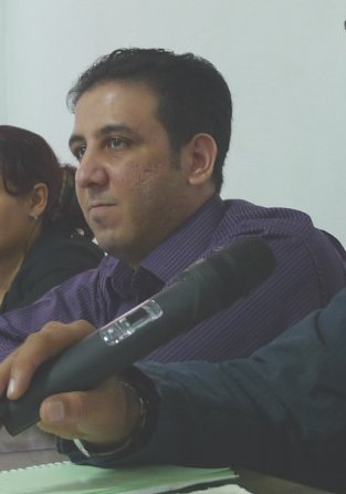 Kareem Amer (C), an Egyptian blogger who served four years in prison and was the first person in the country to be jailed for his online writings, delivers his first public remarks four days before the country's parliamentary elections flanked by his two lawyers. [Evan Hill]